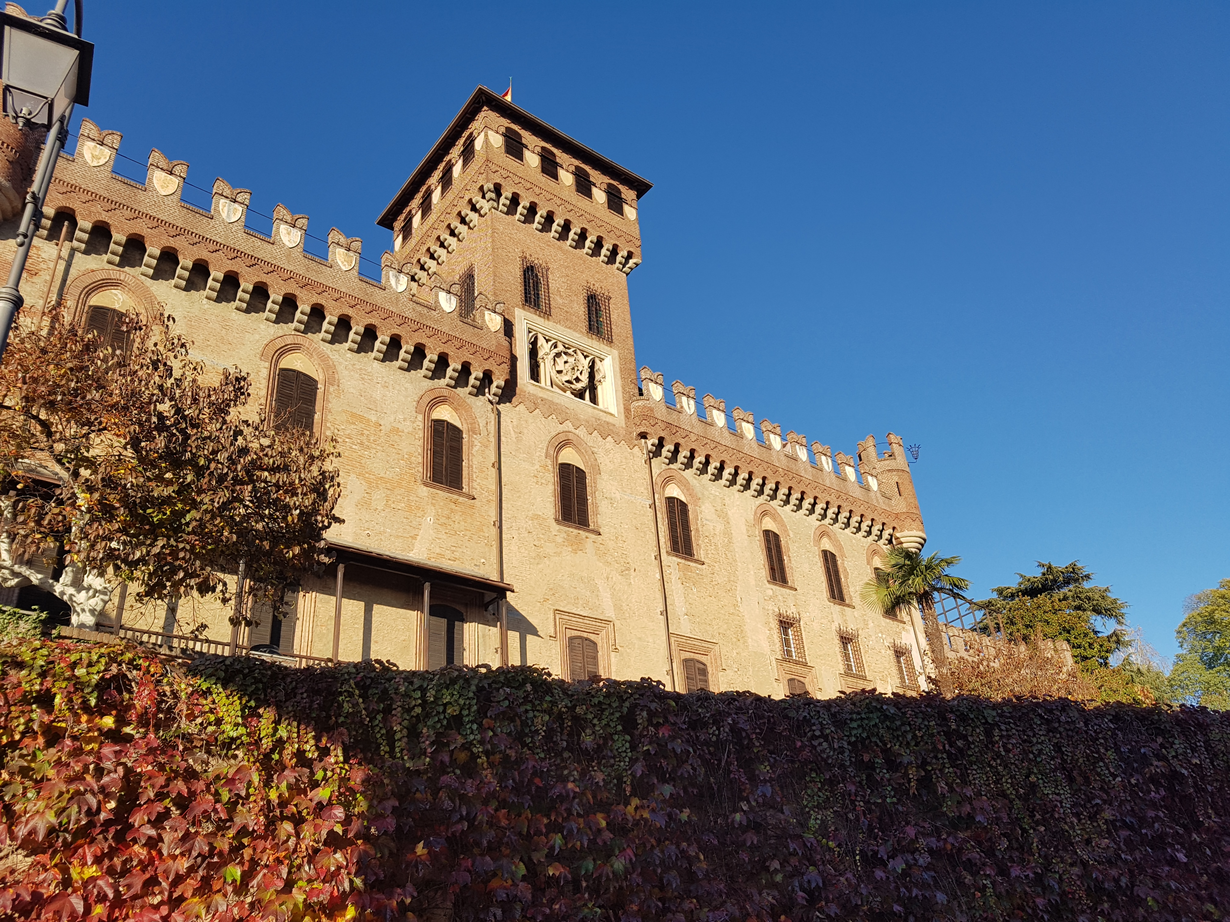 Mazzè Castle, Piedmont, Northern Italy